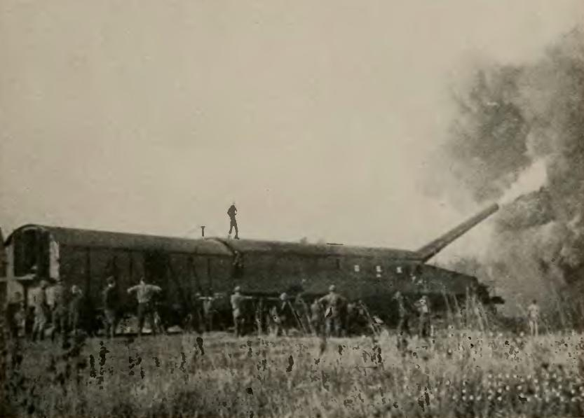 Photograph of US 14 inch railway gun firing, Thierville-sur-Meuse, France, 1918